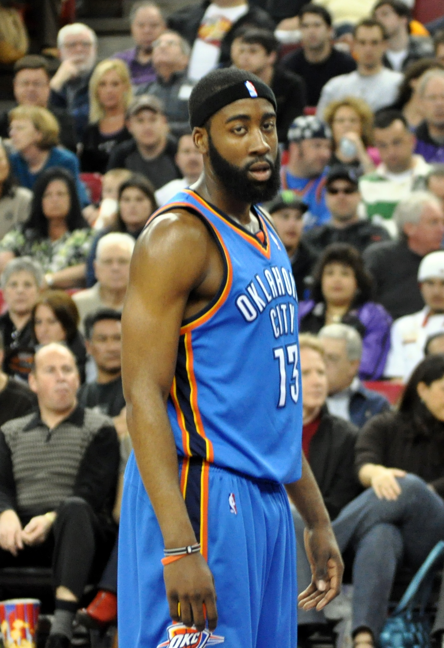 James Harden, a player for the Oklahoma City Thunder at ARCO Arena.